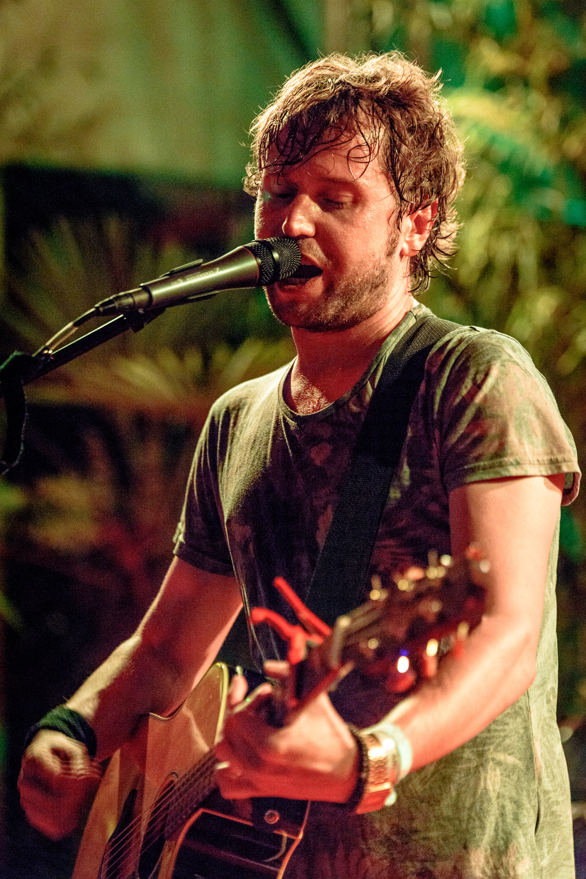 Alex Amsterdam Live 2015 @ Free & Easy Festival